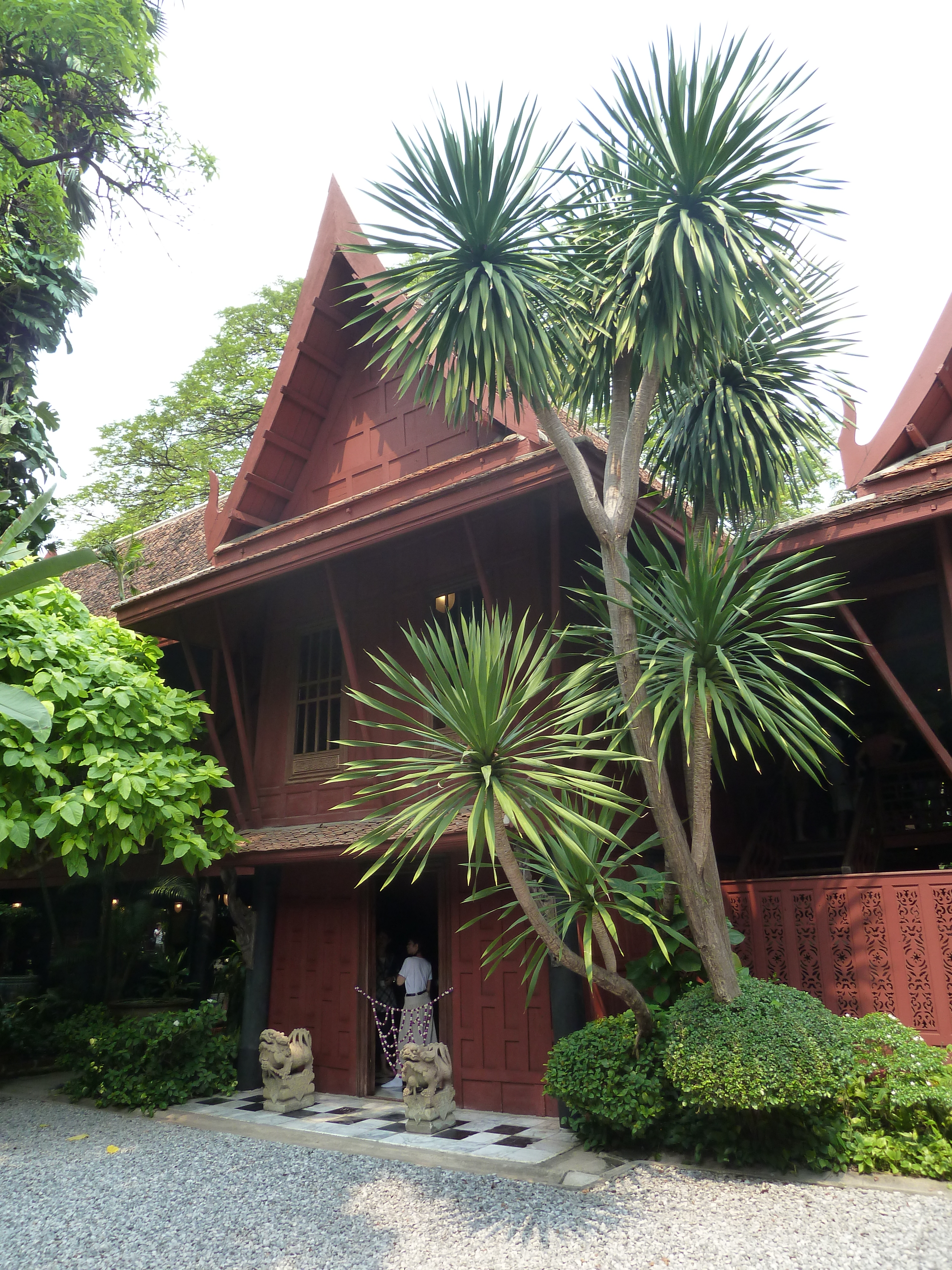 Jim Thompson House, Bangkok, Thailand